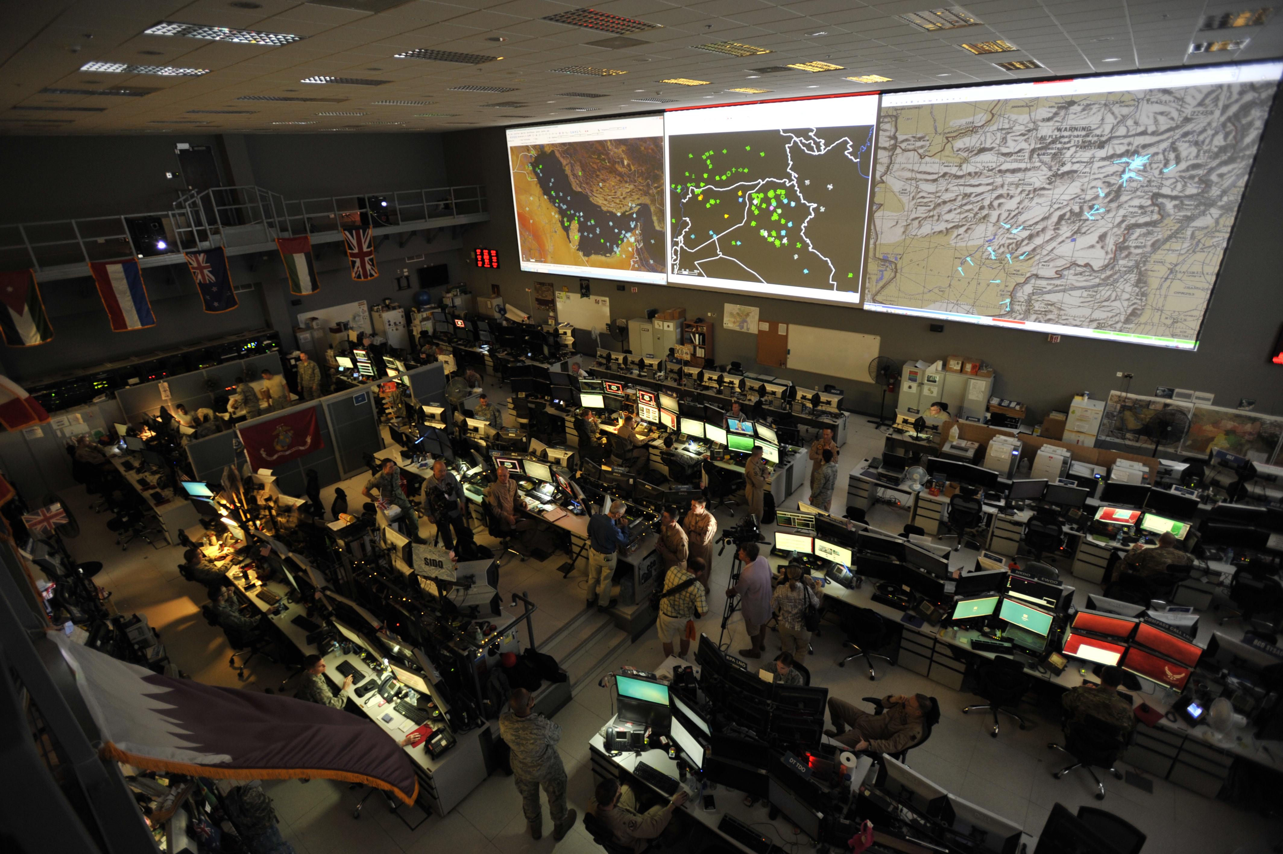 Combined Air Operations Center (CAOC) at Al Udeid Air Base, Qatar, provides command and control of air power throughout Iraq, Syria, Afghanistan, and 17 other nations. The CAOC is comprised of a joint and coalition team that executes day-to-day combined air and space operations and provides rapid reaction, positive control, coordination, and de-confliction of weapon systems. (U.S. Air Force photo by Tech. Sgt. Joshua Strang) Unit: U.S. Air Forces Central Command Public Affairs